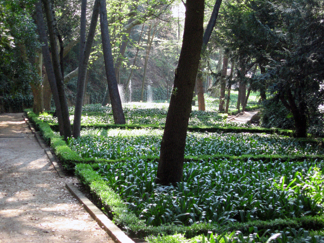 Parc del Laberint d’Horta in Barcelona (Catalonia).